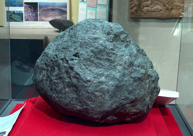 Mainmass of the Ensisheim meteorite.